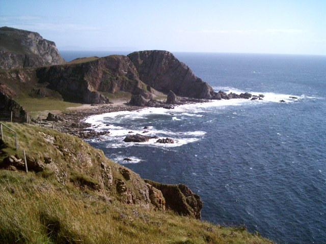 Port nan Gallan, on the Mull of Oa, Isle of Islay. The Argyle Peninsula and the Mull of Kintyre can be seen in the far distance.